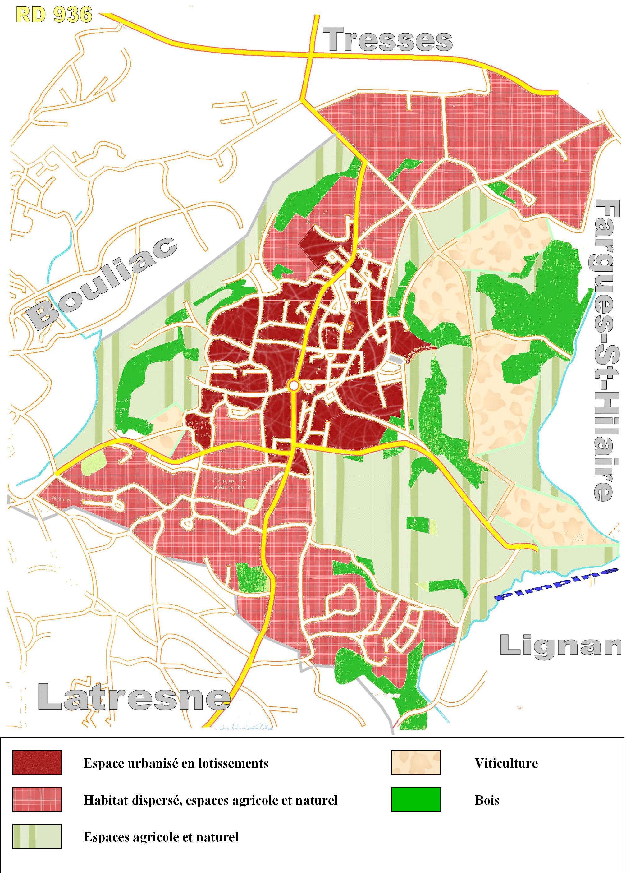 Occupation of the space in Carignan-de-Bordeaux